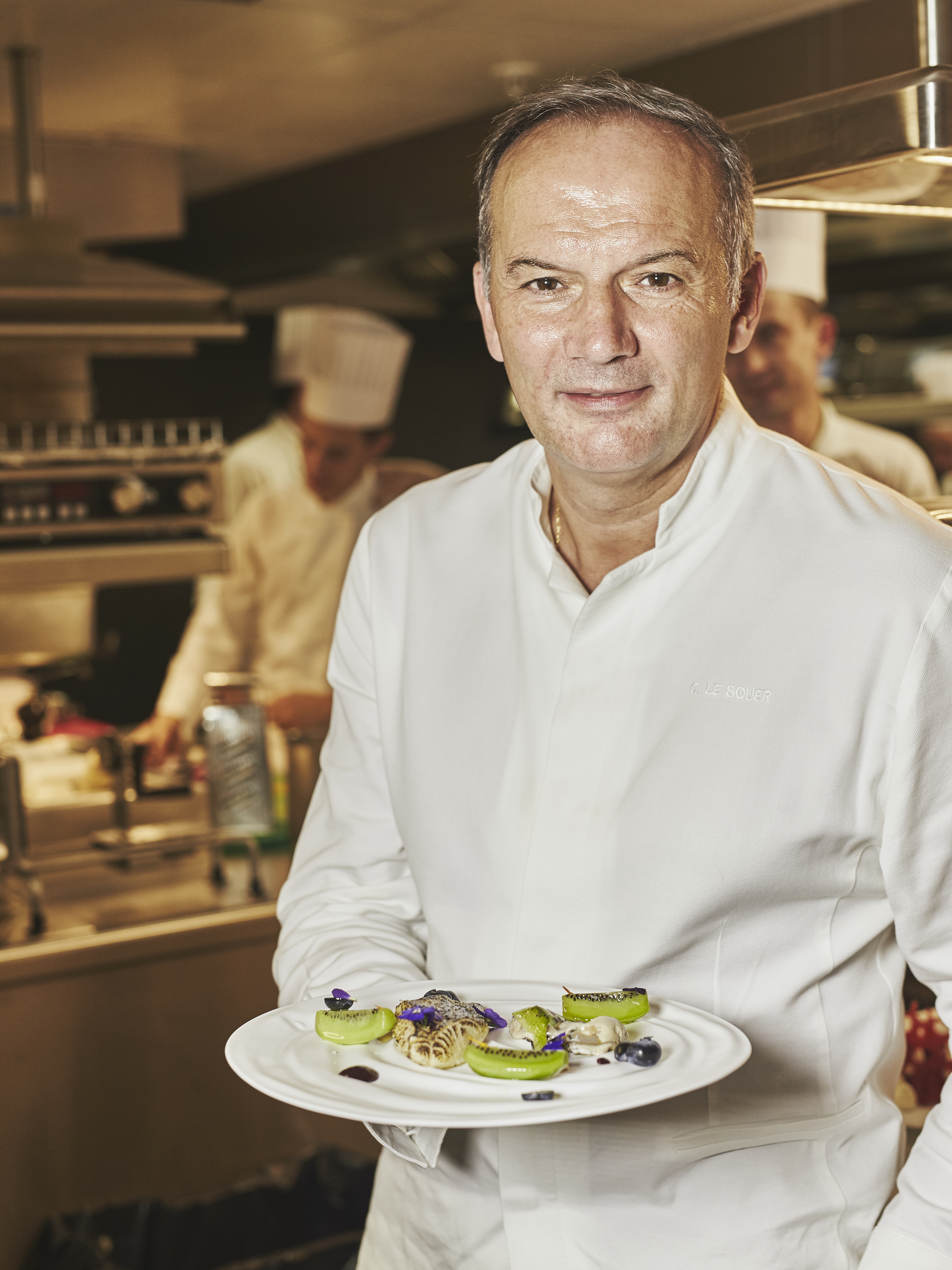 Le Chef Christian Le Squer - Hôtel Four Seasons George V - Photographe : Eddy Brière